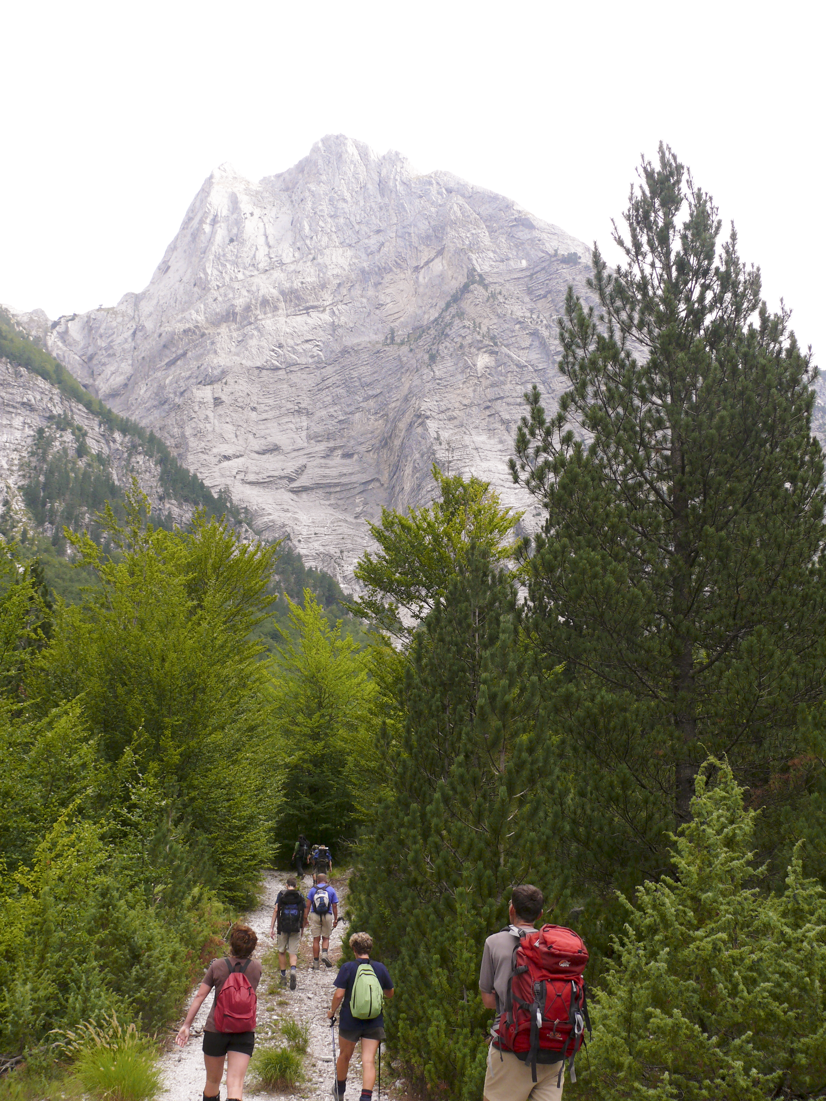 Mount Arapit from Thethi